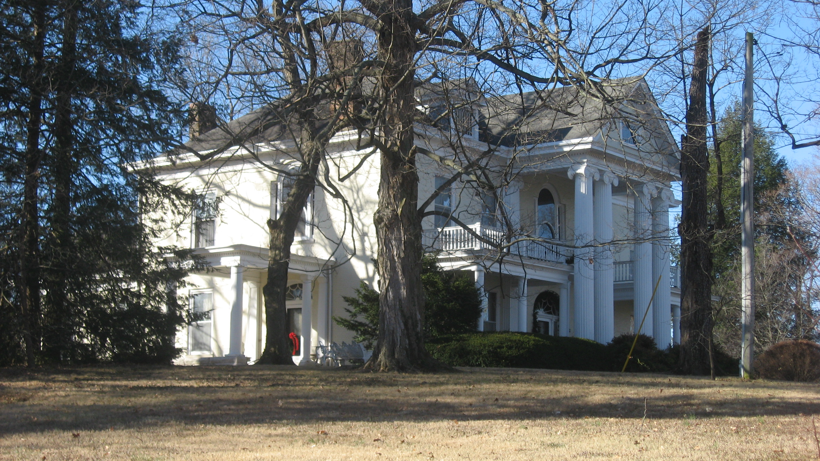 Front and eastern side of the Mansfield Cheatham House, located on the southern side of Seventh Avenue between Oak and Walnut Streets in Springfield, Tennessee, United States. Built in 1833, it is listed on the National Register of Historic Places.